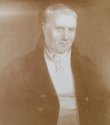 Portrait of the silversmith Christian Ker Reid (1756-1834)